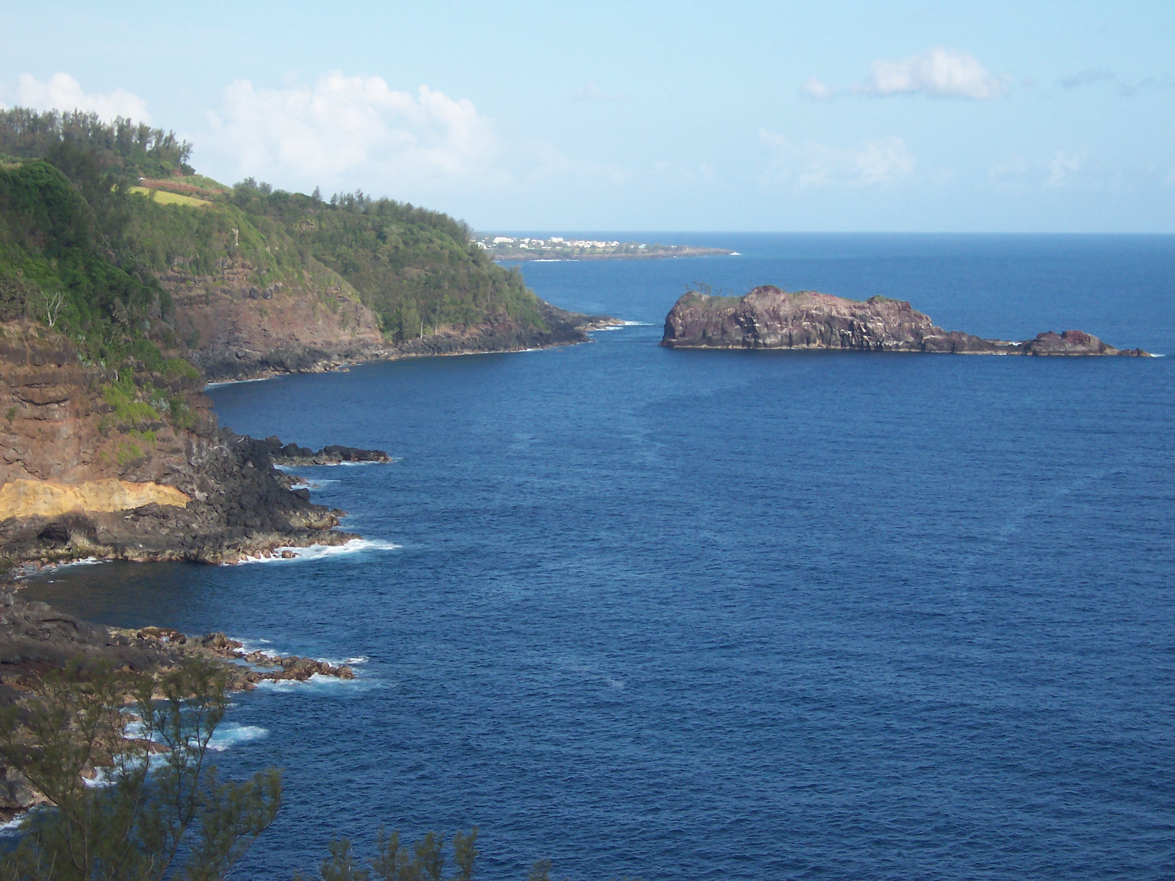 The islet of Petite Île seen from the cape of Petite-Île (Réunion island)